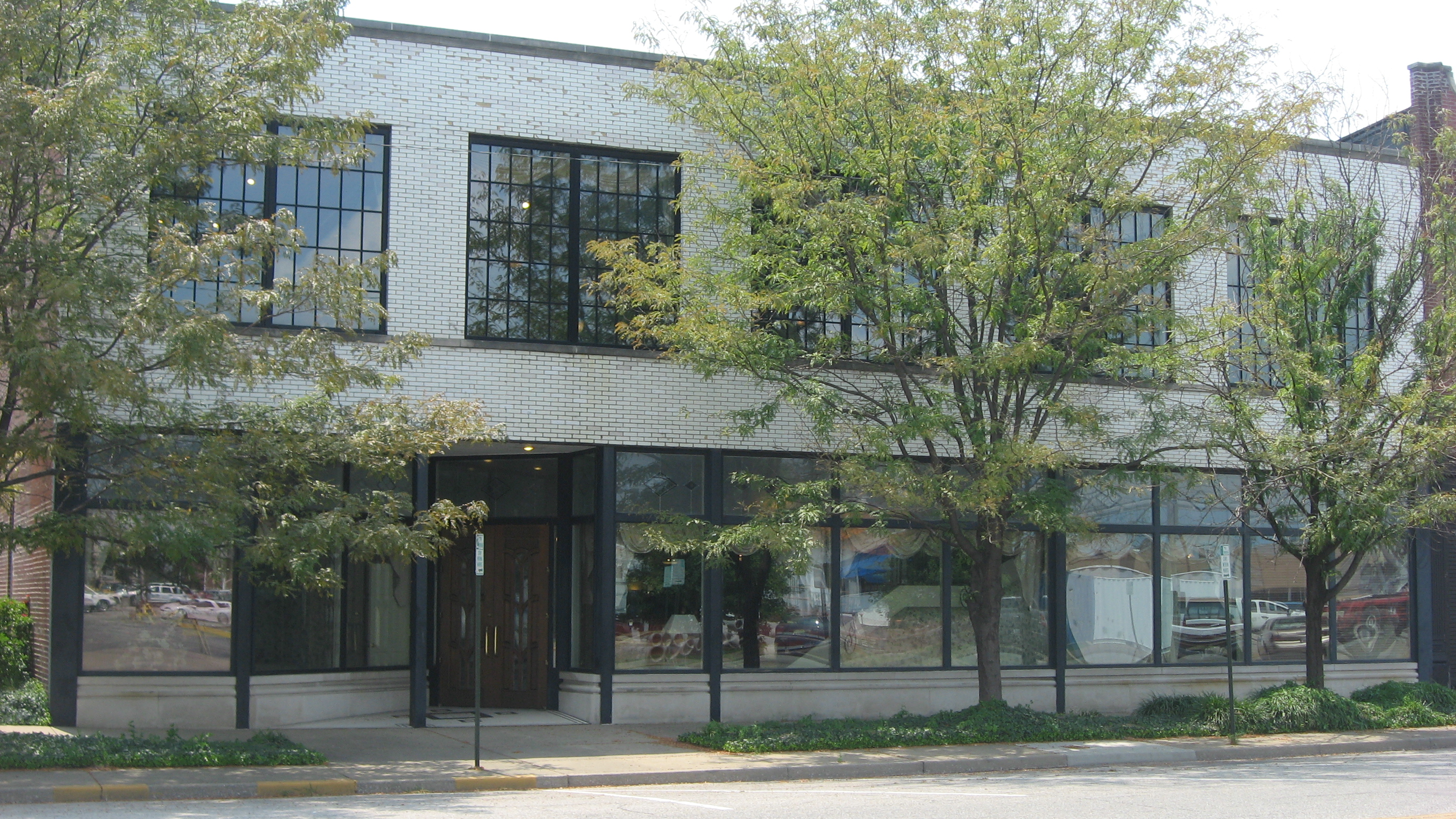 Front of the Huber Motor Sales Building, located at 215-219 SE. Fourth Street in Evansville, Indiana, United States. Built in 1916, it is listed on the National Register of Historic Places.